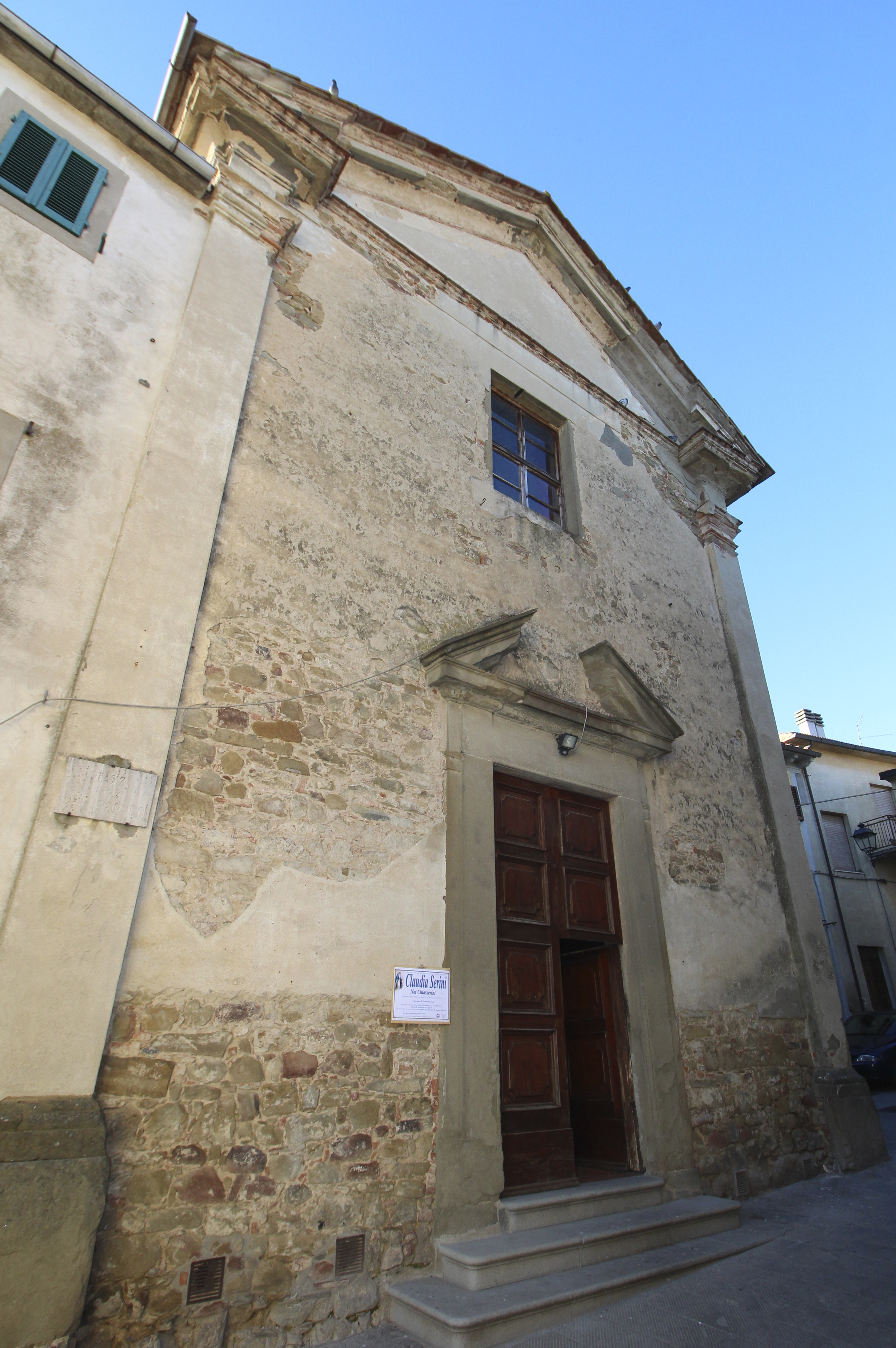 Church San Biagio, Ciggiano, hamlet of Civitella in Val di Chiana, Province of Arezzo, Tuscany, Italy